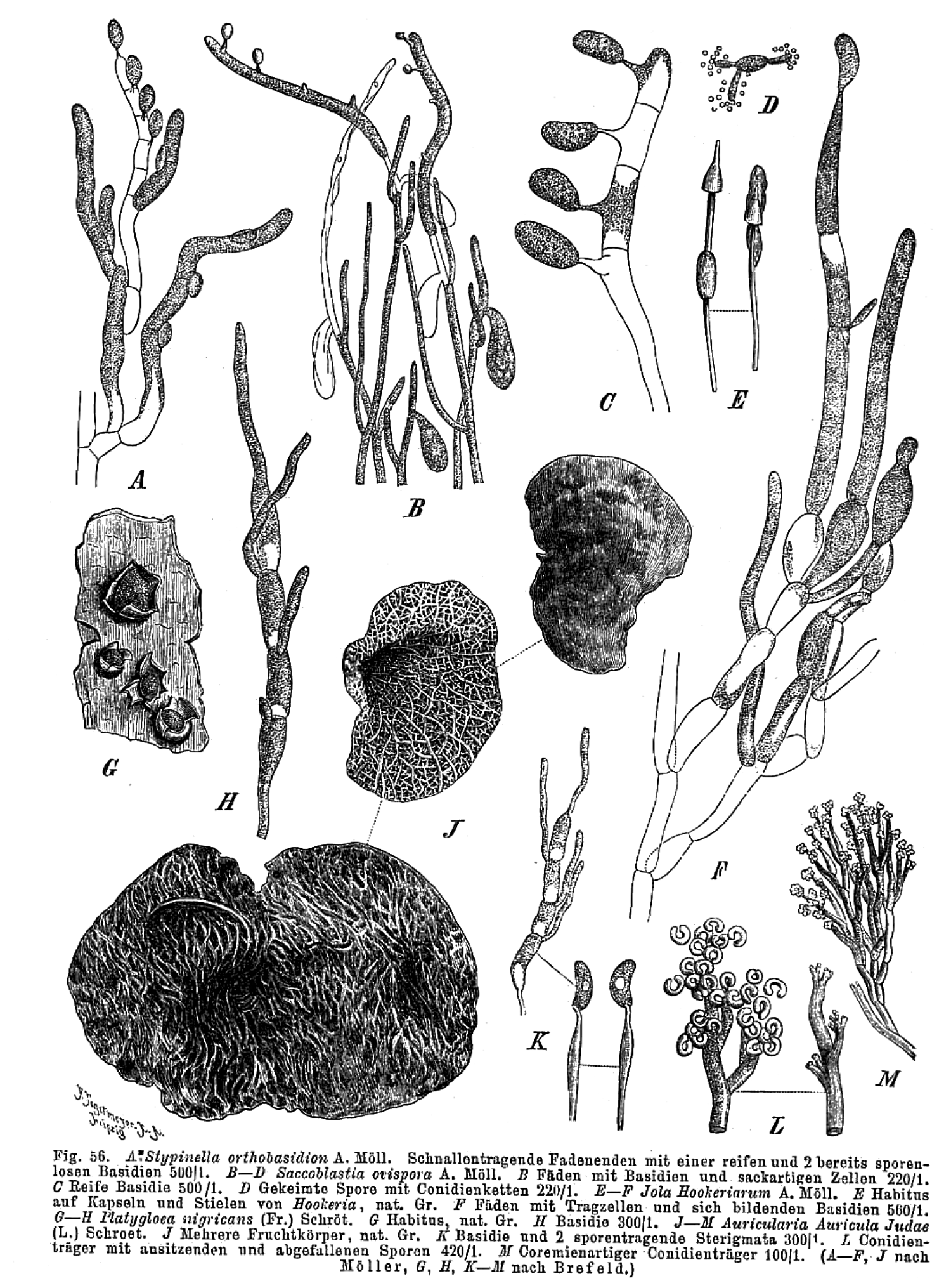 Makro- und Mikromerkmale von Stypinella, Saccoblastia und Auricularia. (Macro- and micromorphology of Stypinella, Saccoblastia and Auricularia)